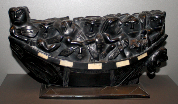 Haida carving (argillite, animal), 1850-1900, Haida Gwai, British Columbia, 33 cm long. Depicts a canoe and oarsmen. NMAI 13/1875.